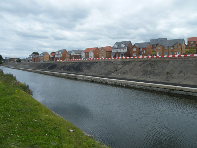 New housing at Polmont